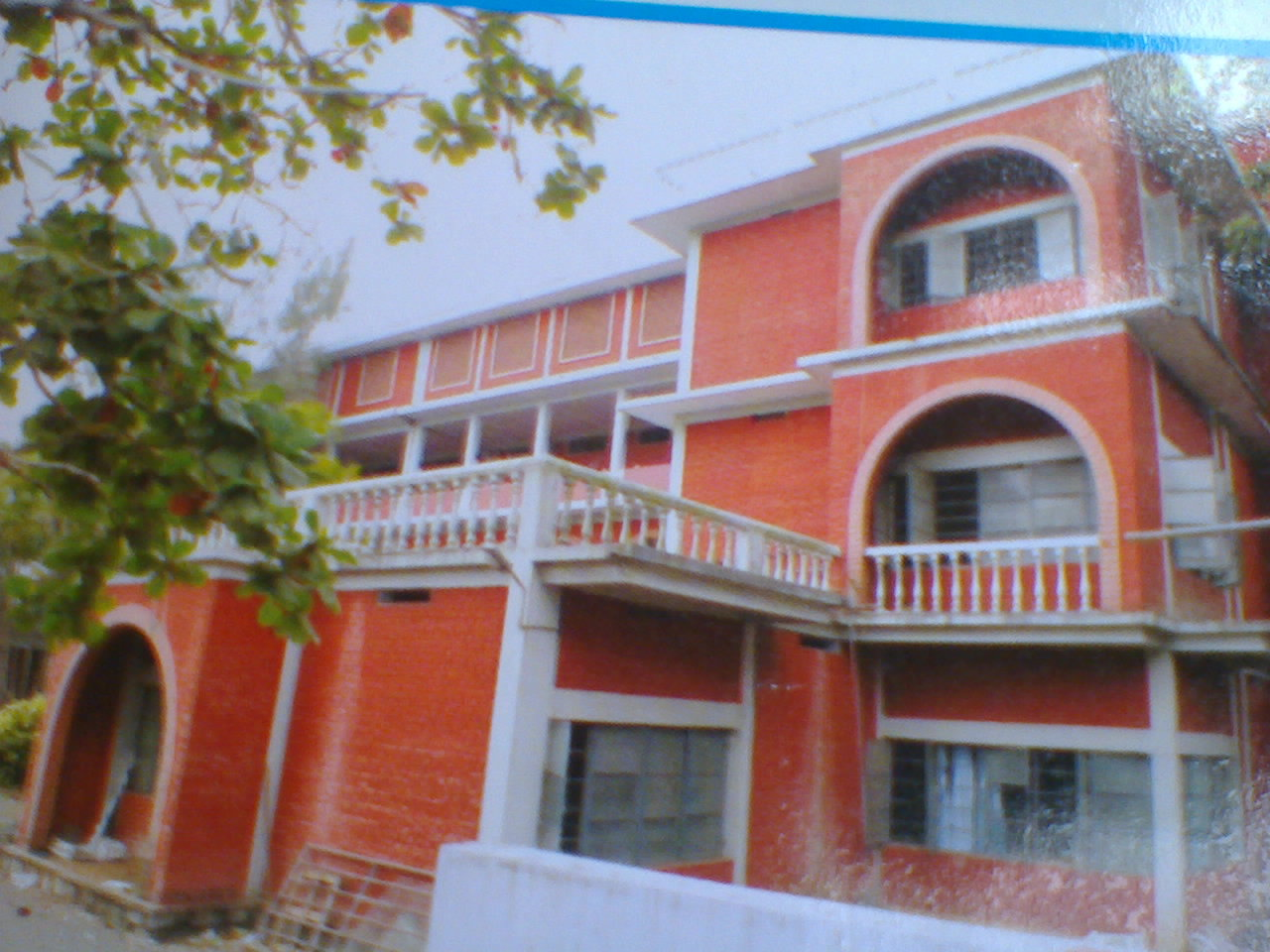 Al-Farook Educational Center